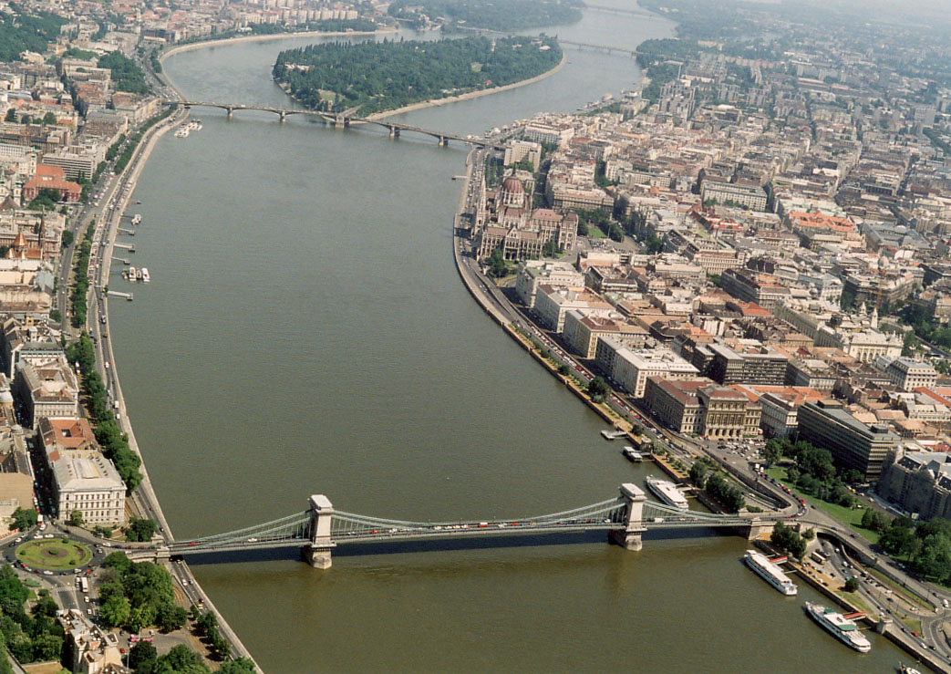 Chain-Bridge - Budapest - Hungary - Europe